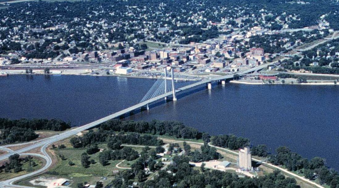 Great River Bridge over the Mississippi River at Burlington, Iowa.